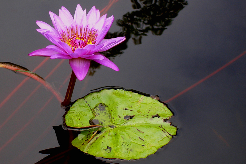 Queensland, Australia, Mount Coot-tha, Brisbane Botanic Gardens, purple water lily in the family Nymphaeaceae